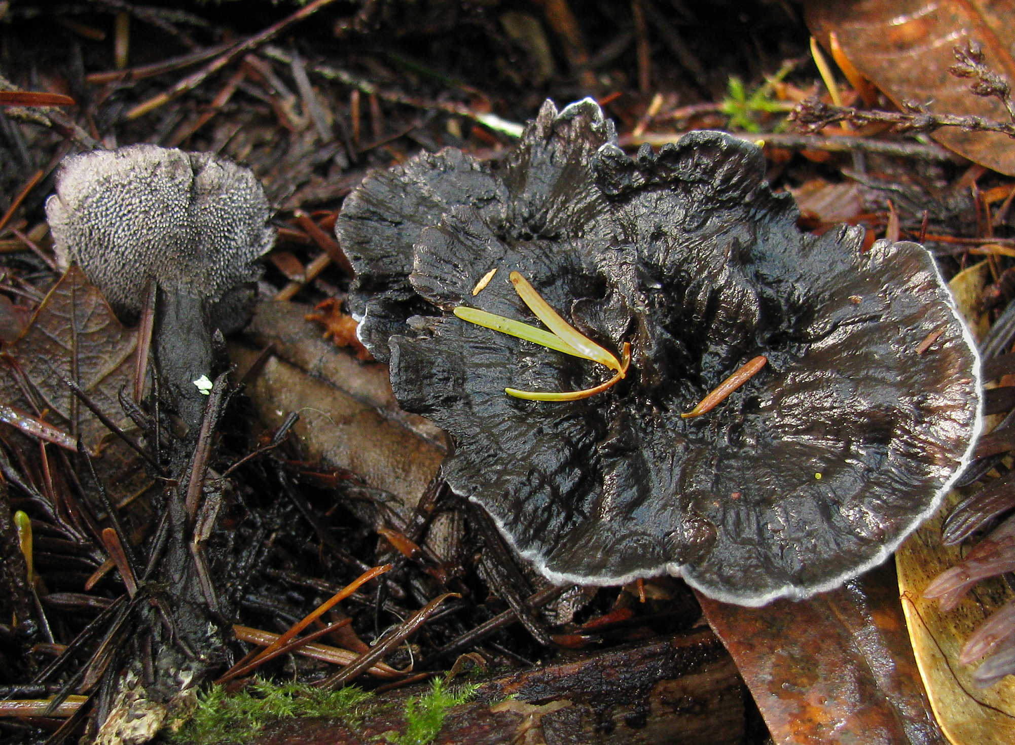 Phellodon atratus K.A. Harrison Location: Mendocino, California, USA For more information about this, see the observation page at Mushroom Observer.